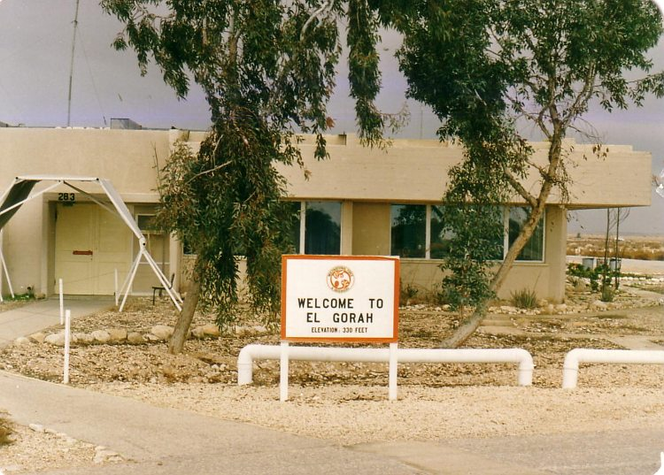 Canadian RWAU HQ and the MFO welcome sign on the El Gorah flight line in 1989.